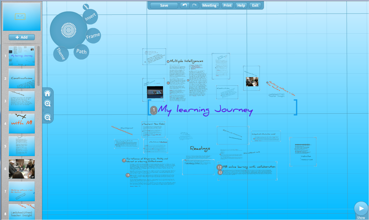 This is a screen capture of a Prezi presentation